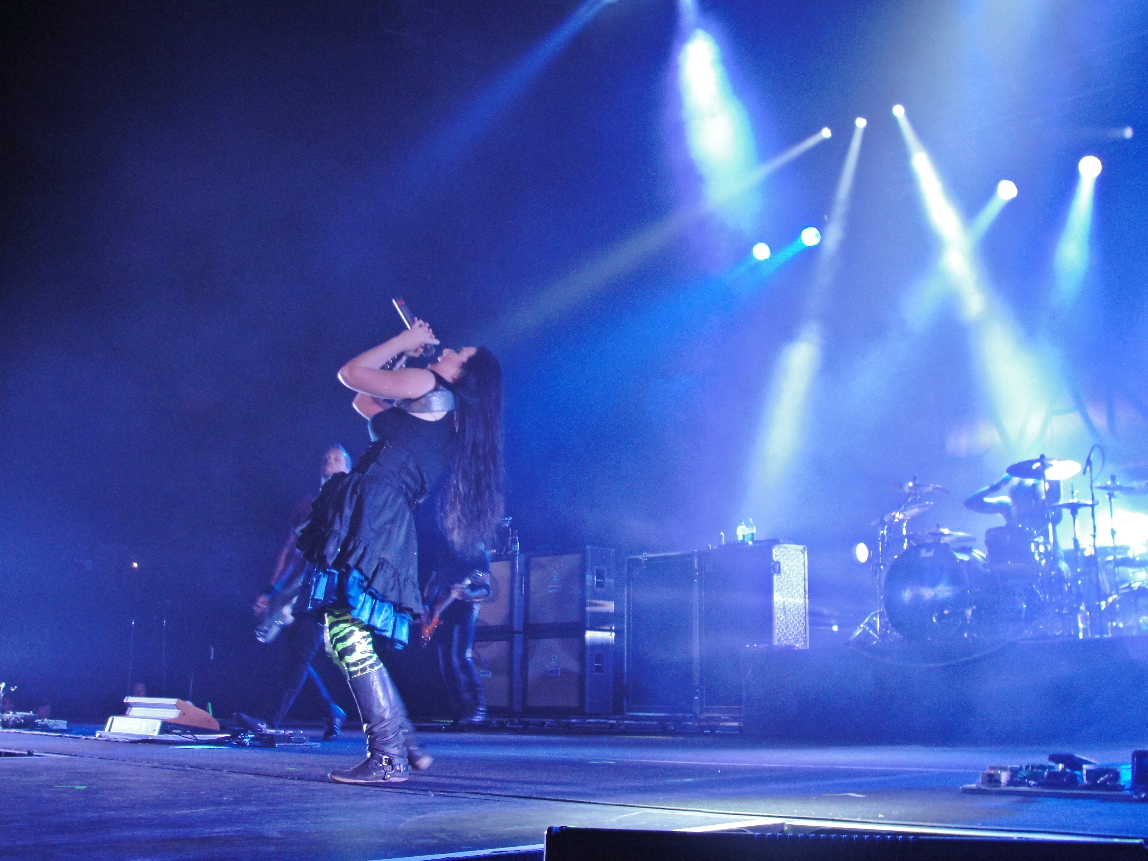 Amy Lee of Evanescence performing live at the Laredo Energy Arena in Laredo, Texas August 14, 2012